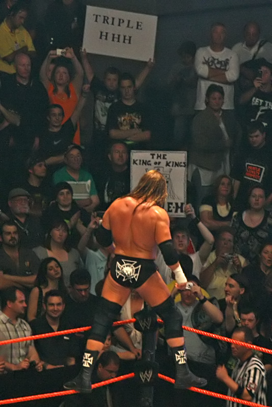 Triple H (Paul Michael Levesque) acknowledging the crowd following the match. Taken during the WWE Raw - Survivor Series Tour, at Rod Laver Arena, Melbourne Park, Melbourne, Australia. Triple H wrestled in the main event of the night, a tag-team bout involving Umaga & Randy Orton (reigning World Heavyweight Champion) vs Jeff Hardy & Triple H; the match was won by Triple H pinning Orton following a pedigree.